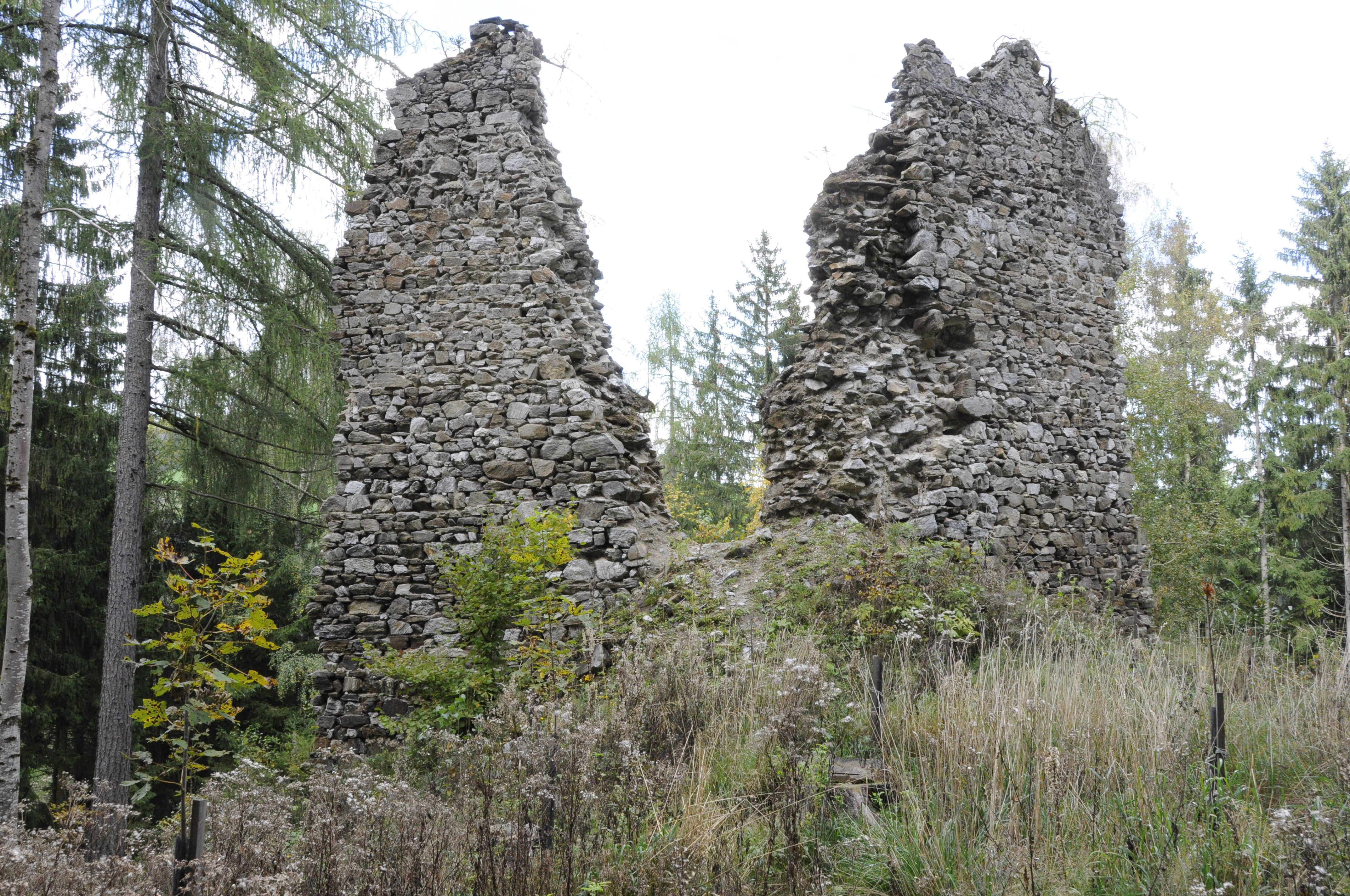 Castle ruin Reichenfels, municipality Reichenfels, district Wolfsberg, Carinthia / Austria / EU